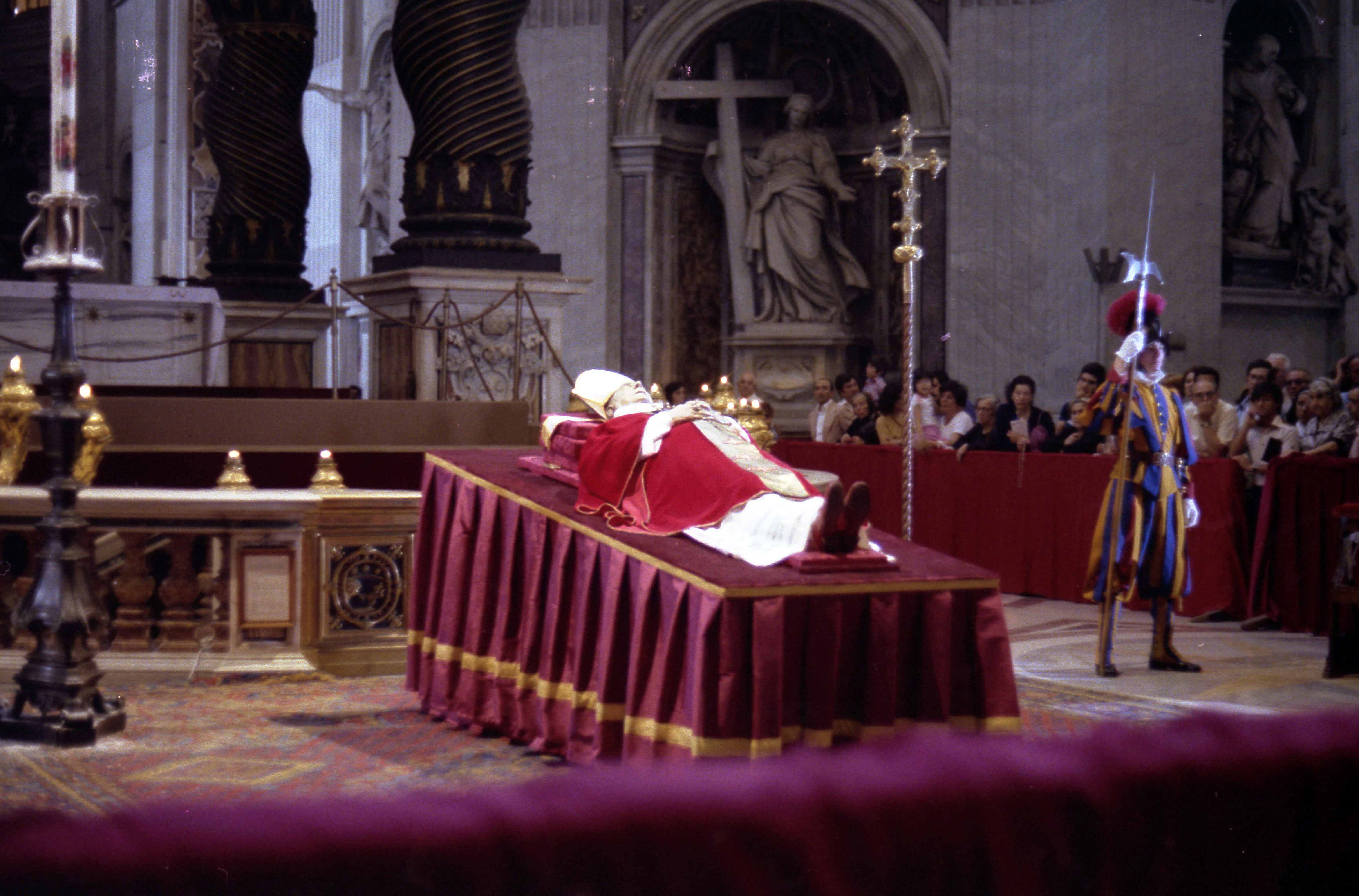 Paulos VI's body is shown in the Vatican. Photos were forbidden because of the exclusive by an american news agency. This photo was taken without flash nor tripod.